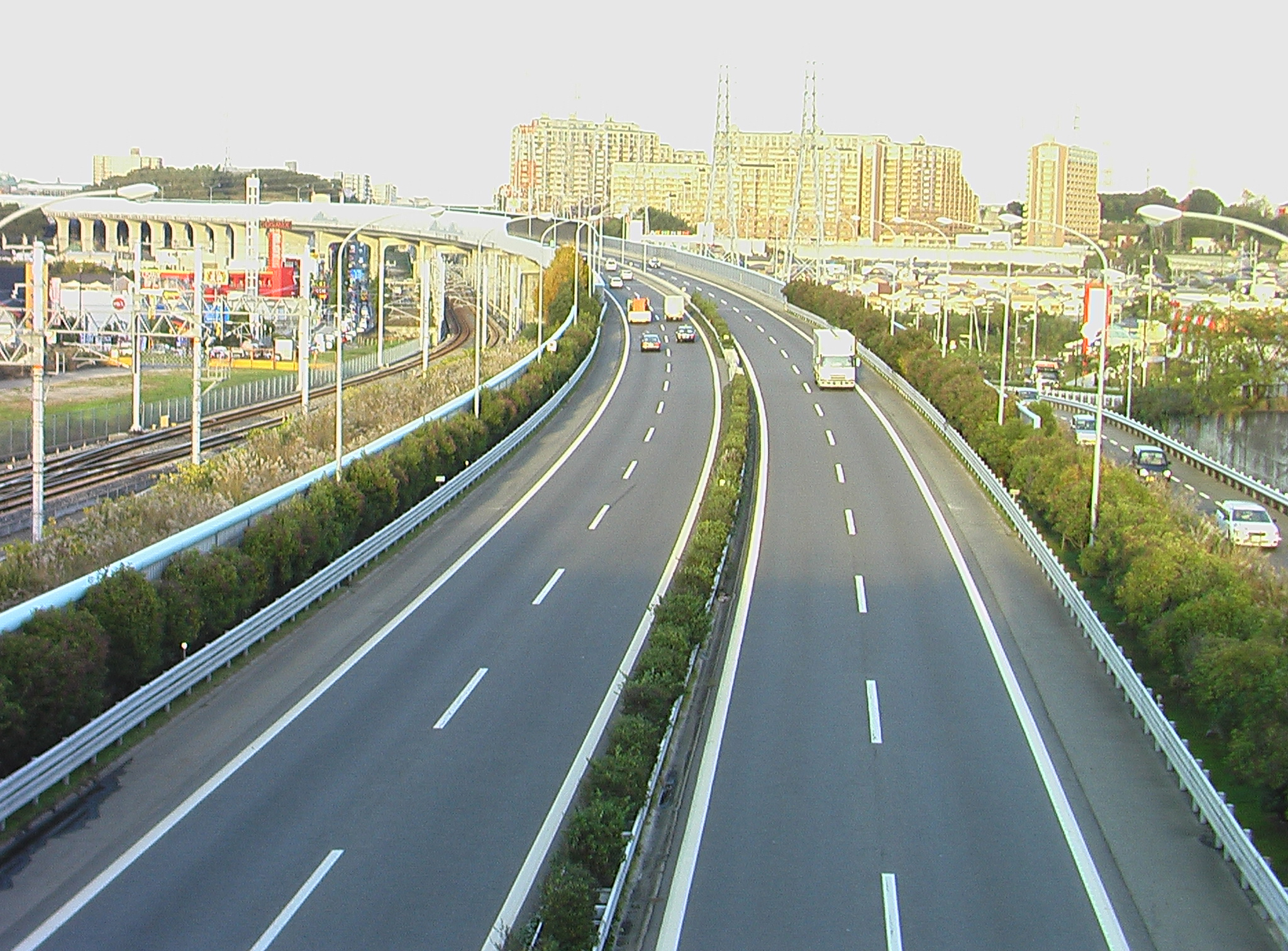 Hanwa Expressway in Izumi